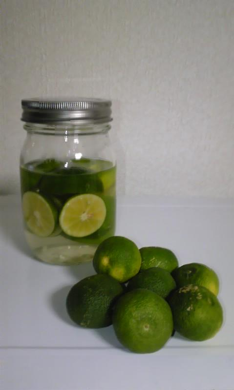 This is a picture of sudachis.